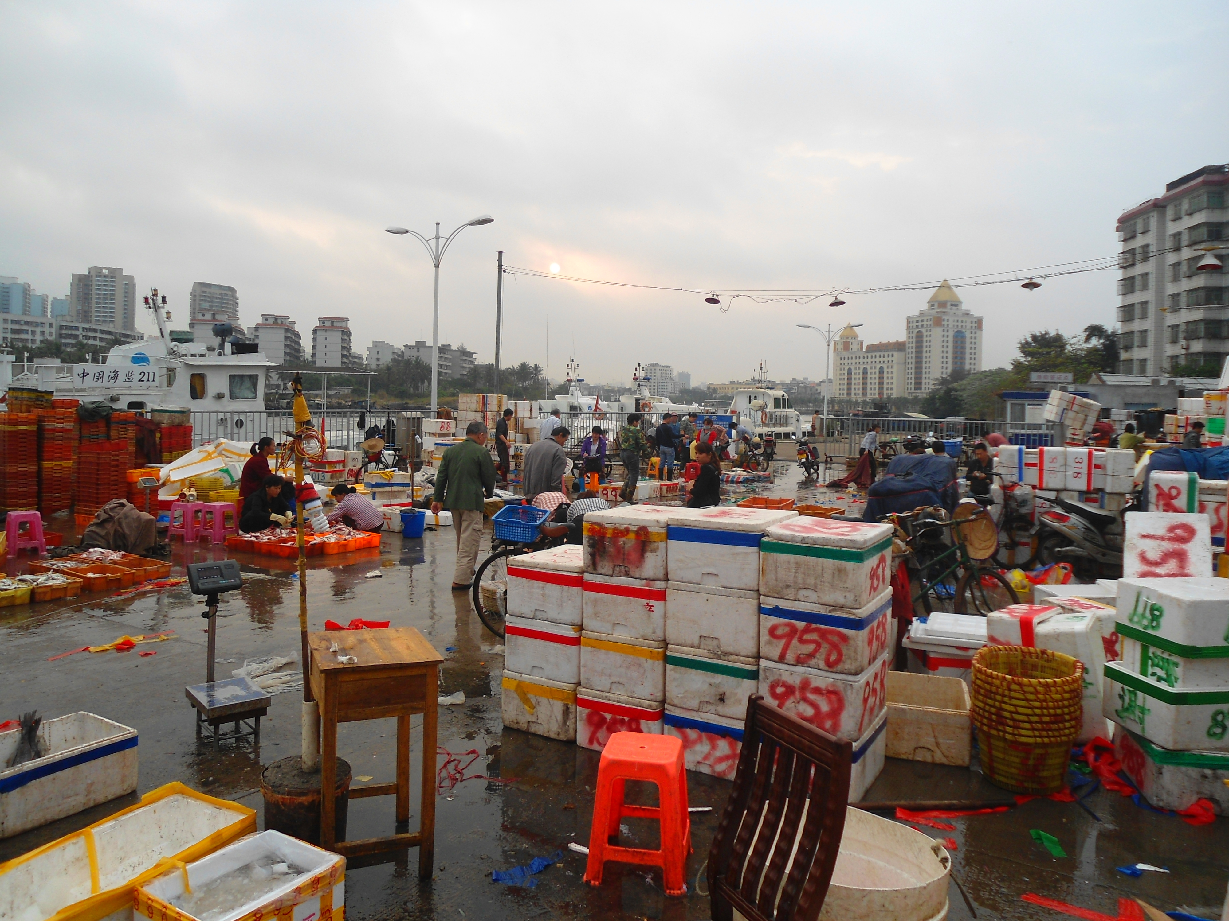 Early morning view of the wholesale fish market at Haikou New Port, Haikou, Hainan, China.